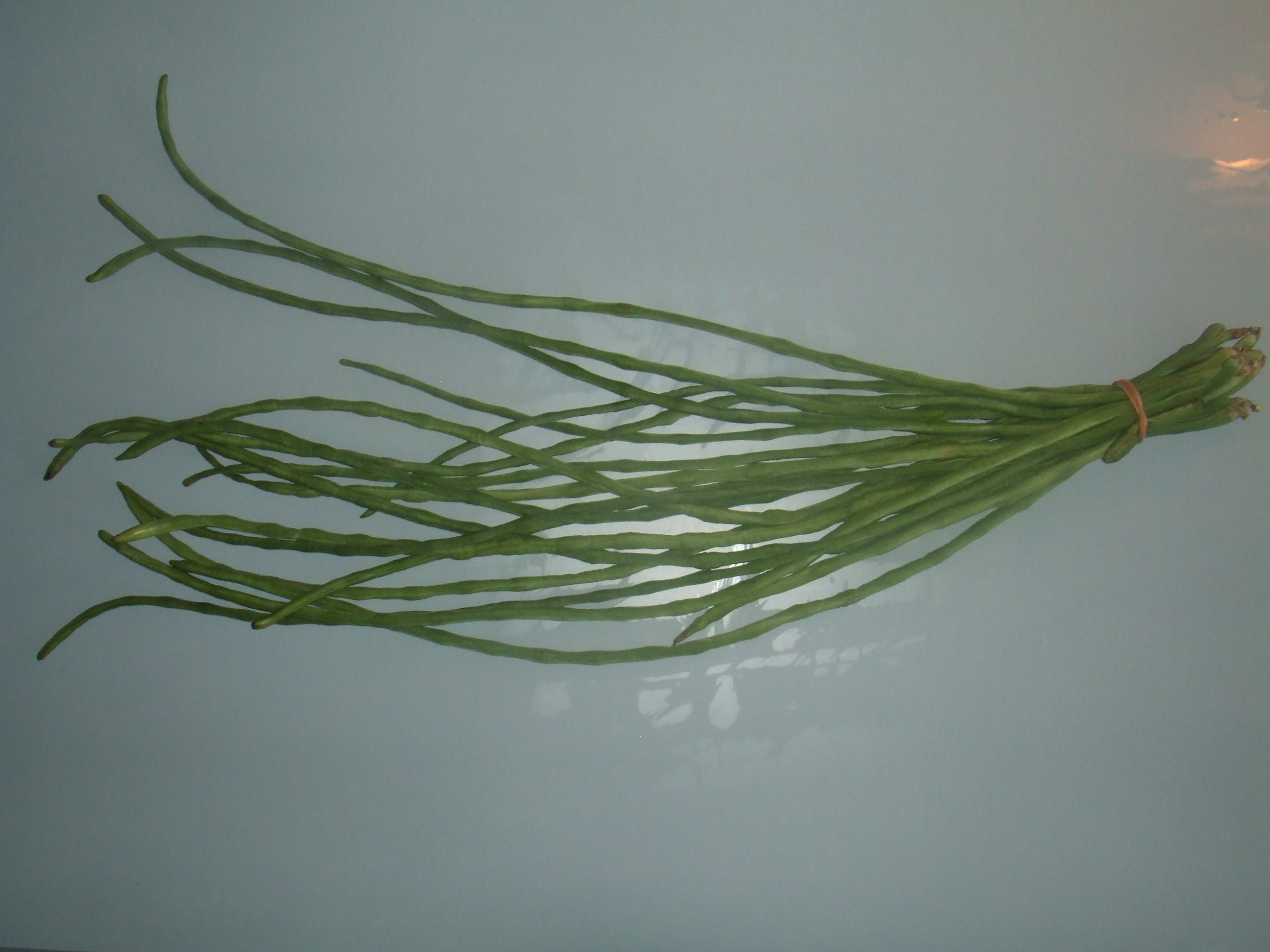 Vigna unguiculata, bought at the Binnenrotte market in Rotterdam, The Netherlands.